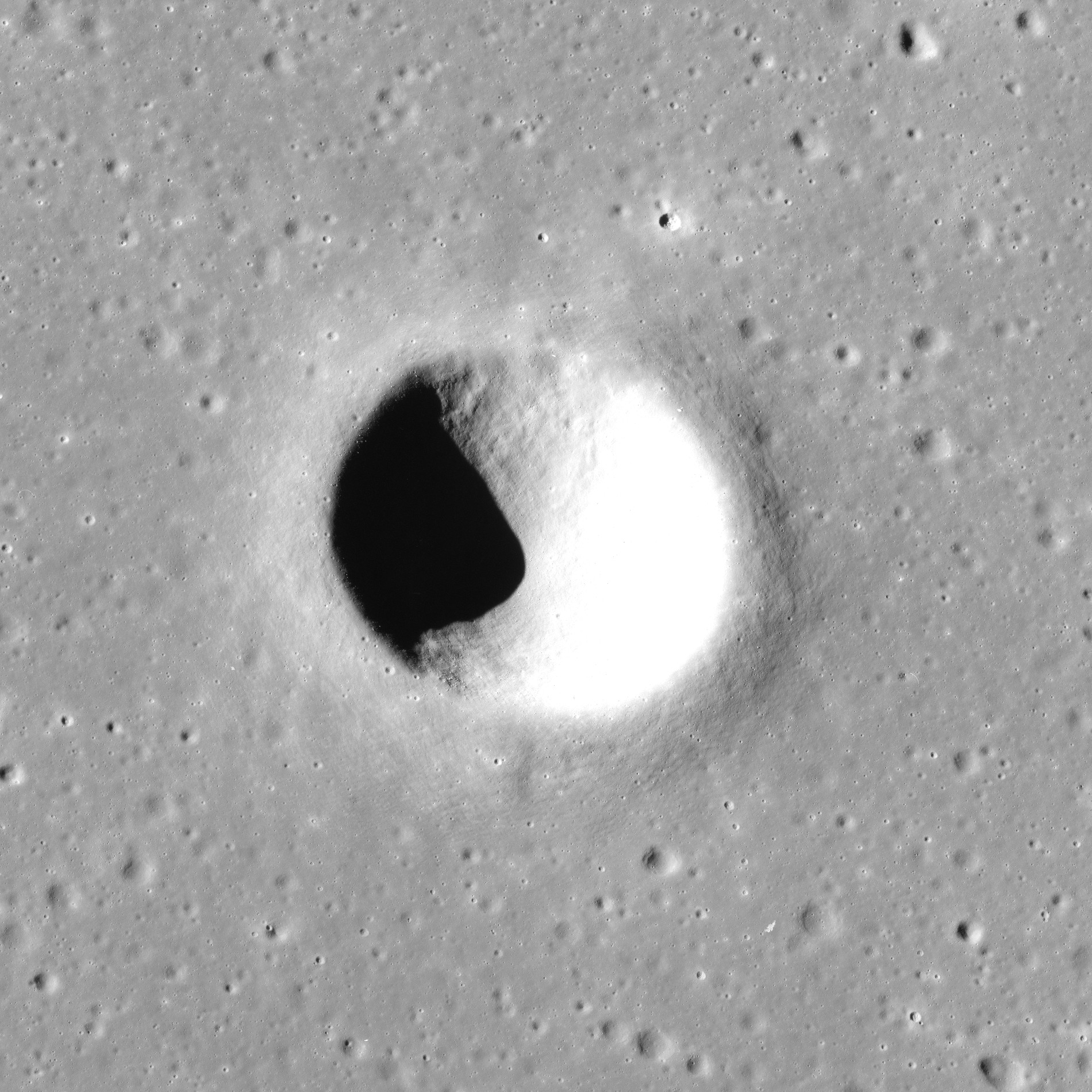 Hornsby crater, on the moon. Taken by Apollo 15 panoramic camera.